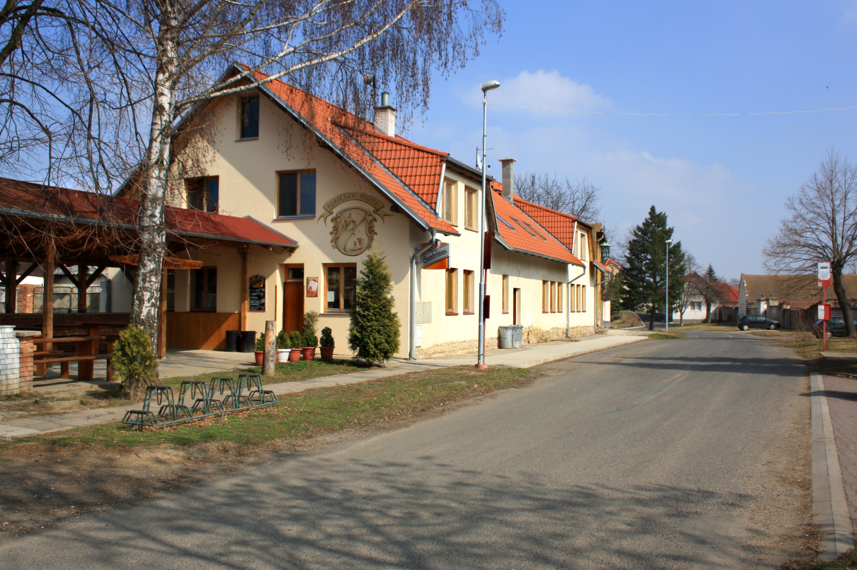 Restaurant in Bukol, part of Vojkovice village, Czech Republic